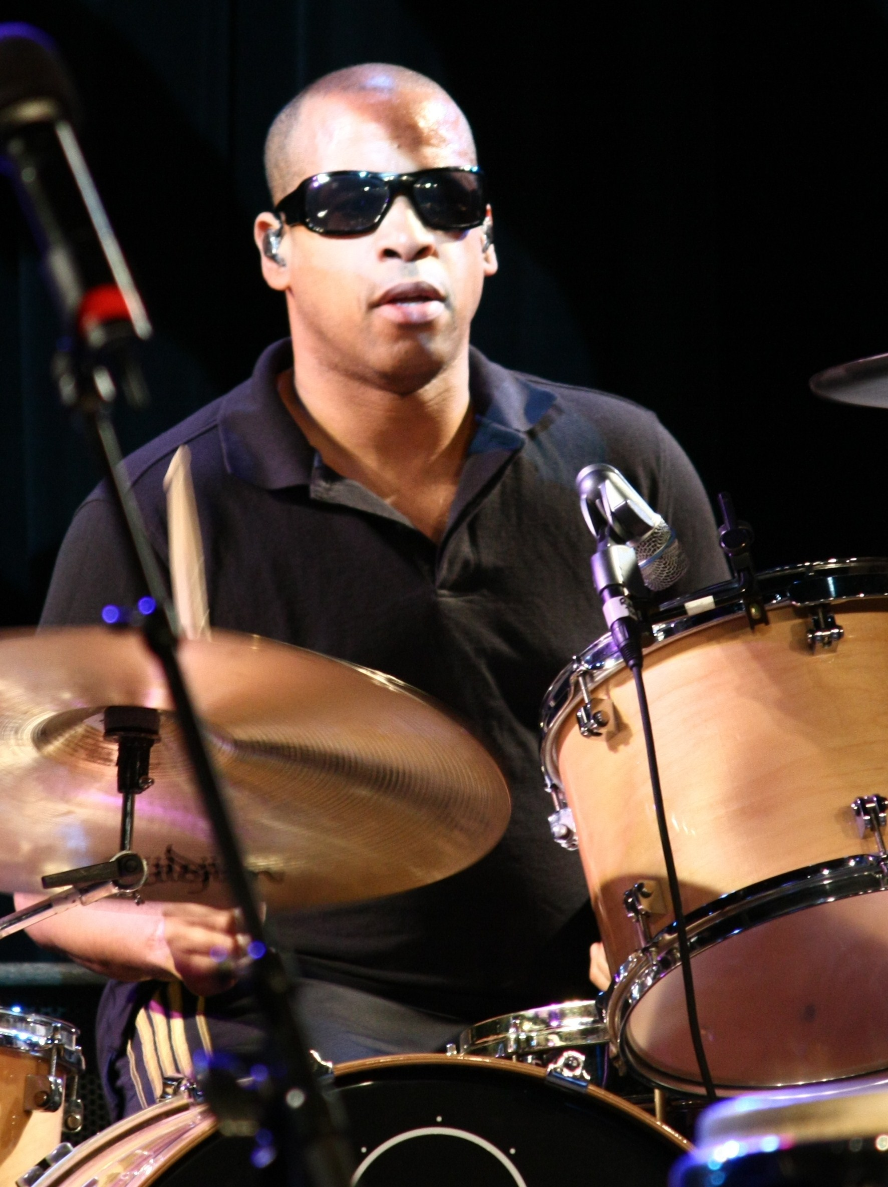 Sterling Campbell